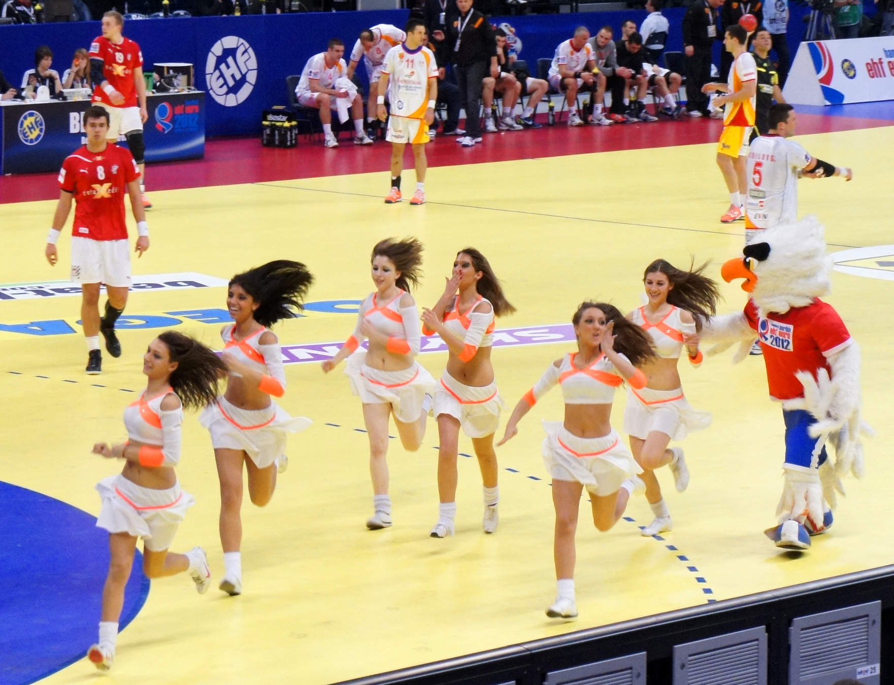 Mascot Tasa with cheerleadres. 2012 European Men's Handball Championship. Belgrade Arena, Serbia.